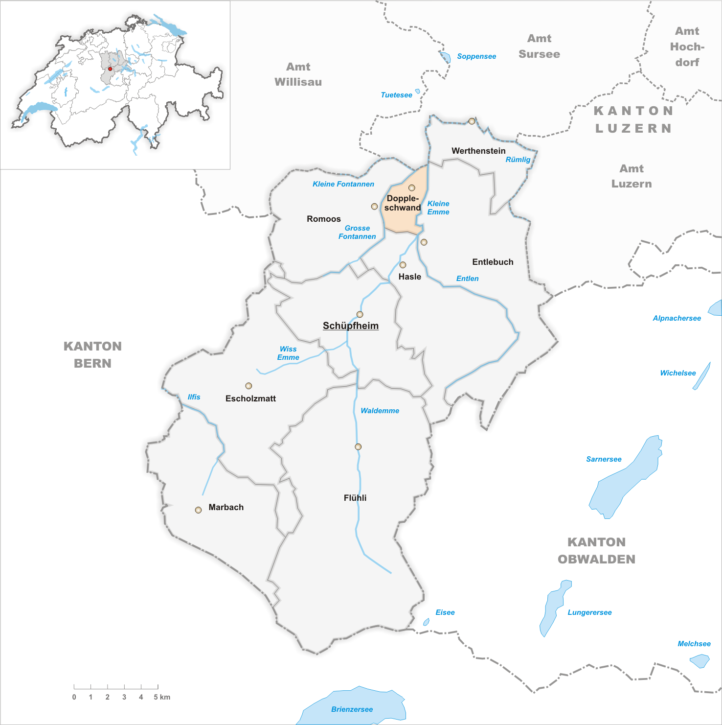 Municipality Doppleschwand